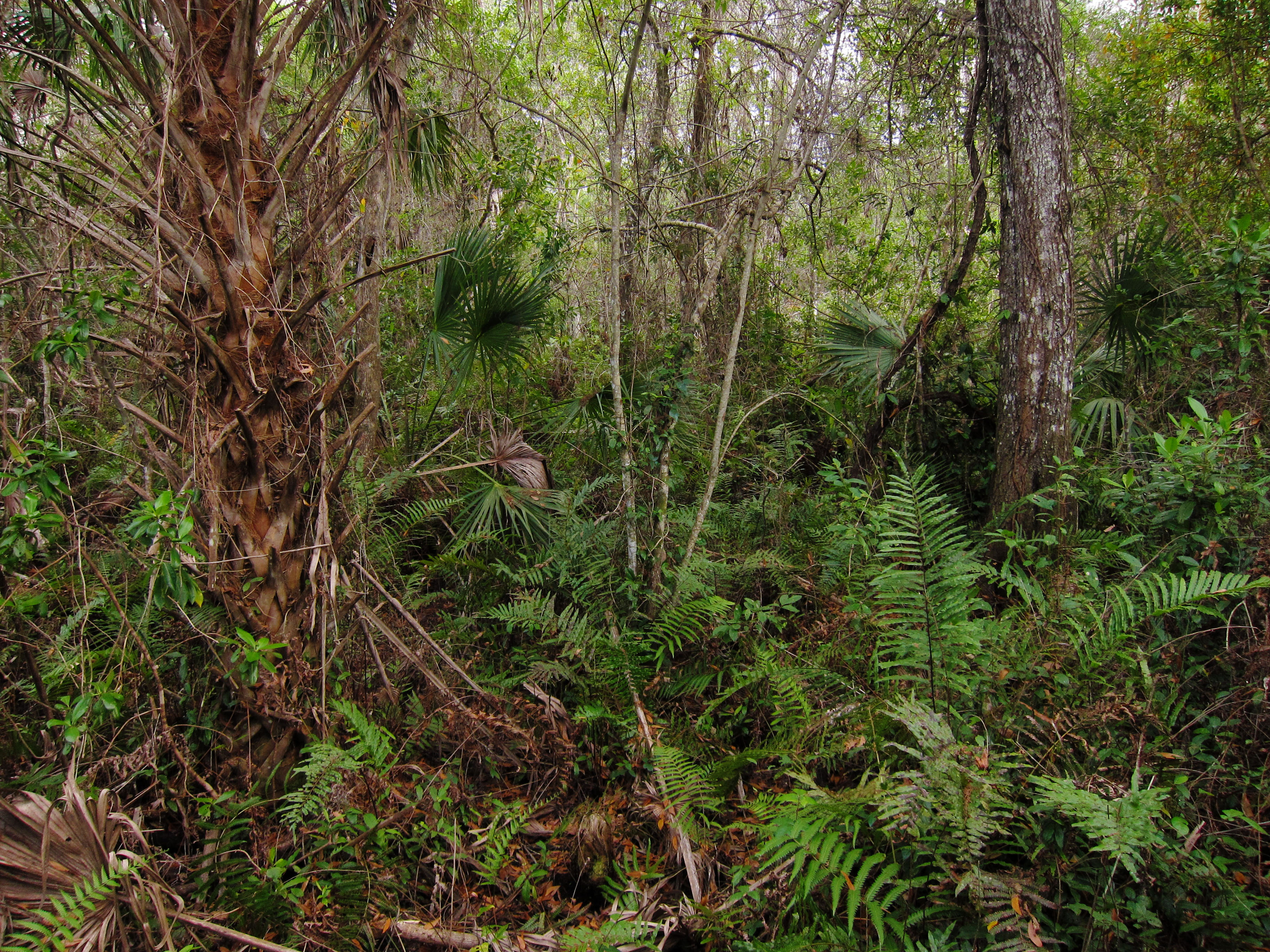 Fakahatchee Strand Preserve State Park Big Cypress Bend boardwalk